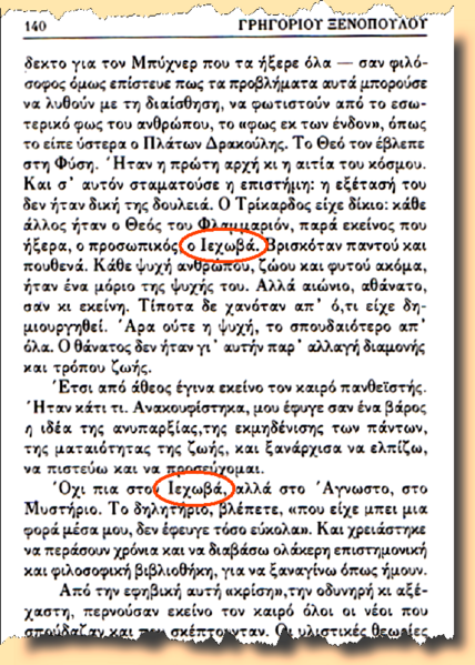 Excerpt from the book My life as a novel (Η Ζωή μου σαν Μυθιστόρημα, Greek version, p. 140) of Grigorios Xenopoulos, showing the use of God's name Jehovah ( Ιεχωβά).